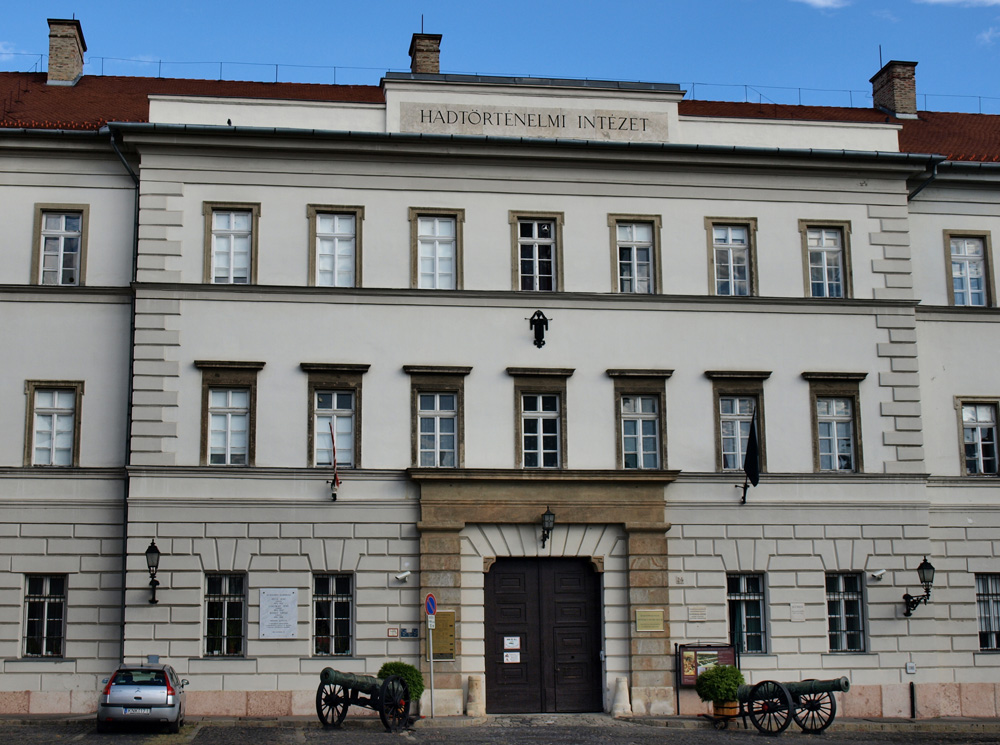 Military History Institute and Museum LocationBudapestCoordinates47° 30′ 15″ N, 19° 01′ 38″ E Established1922Web page control : Q1032469 ISNI: 0000 0001 0860 6822 LCCN: n85040347 WorldCat institution QS:P195,Q1032469